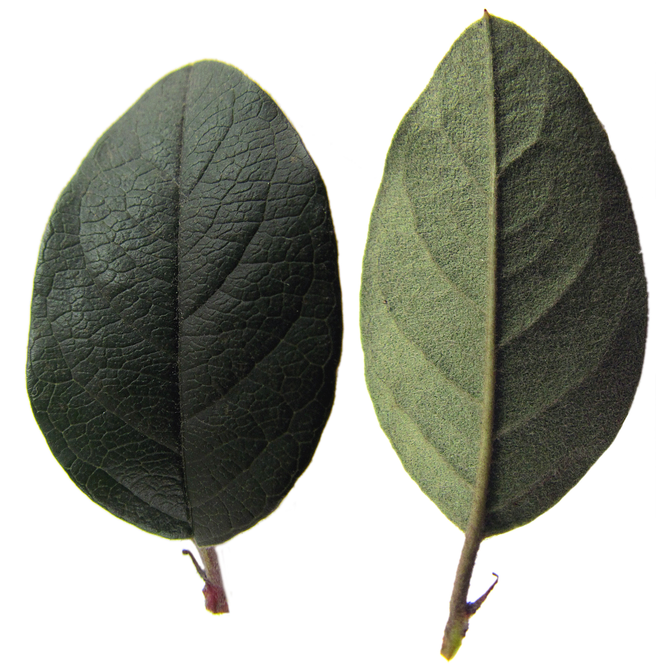 Cotoneaster multiflorus leaf adaxial and abaxial sides.